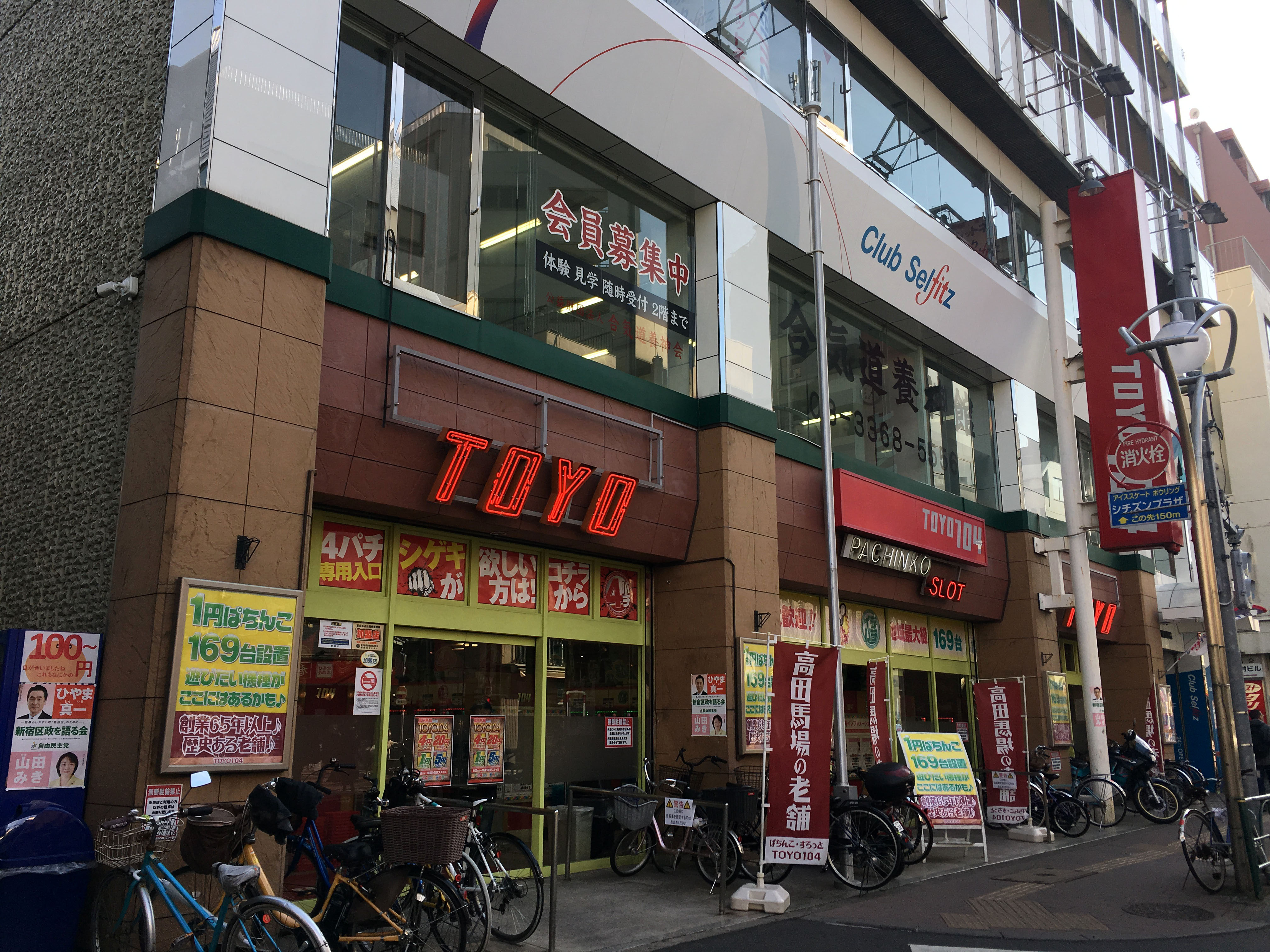 Yoshinkan headquarters (Aikido school in Tokyo, Japan)